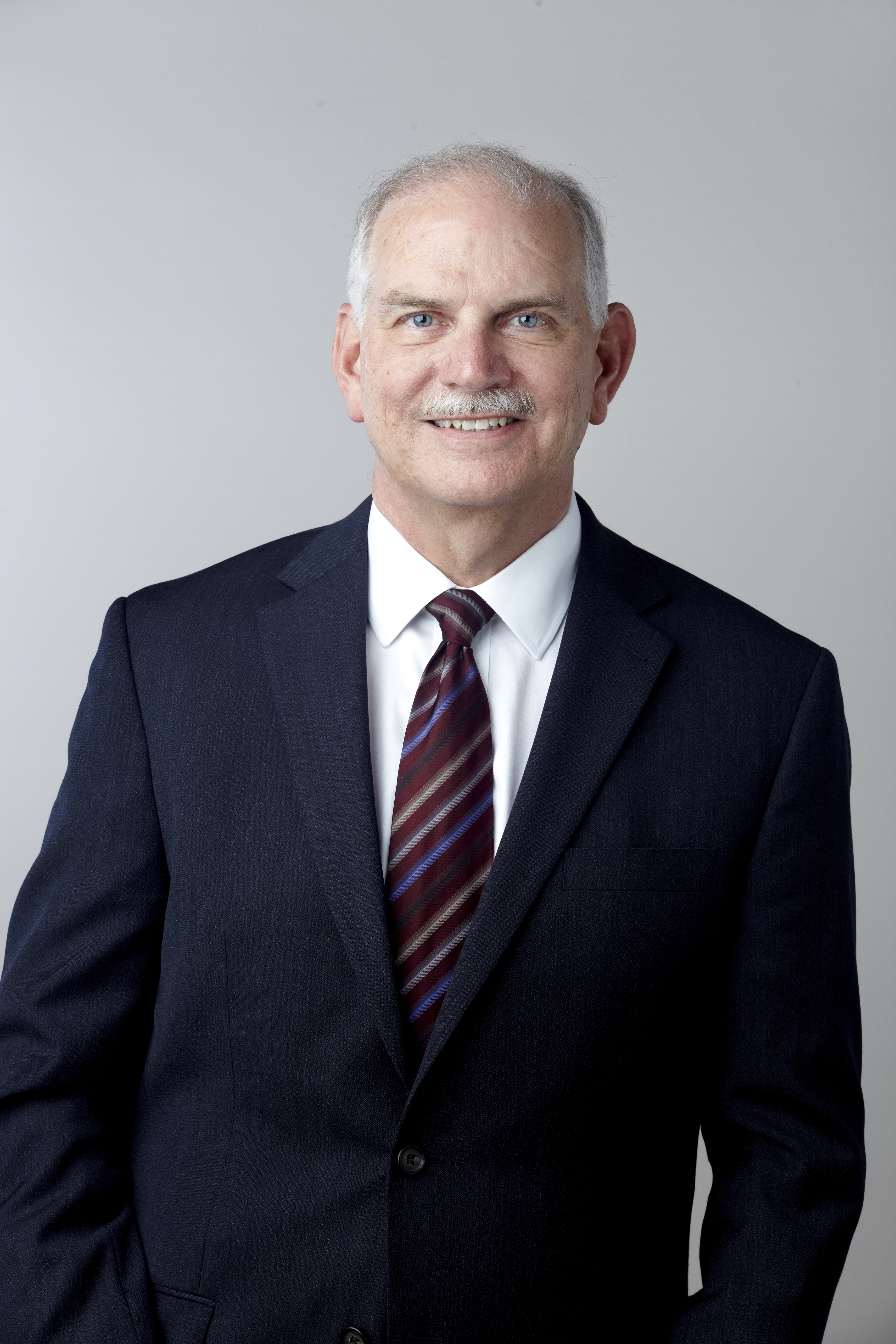 Professor Vincent Poor FREng ForMemRS, Royal Society Foreign Member Attribution: The Royal Society